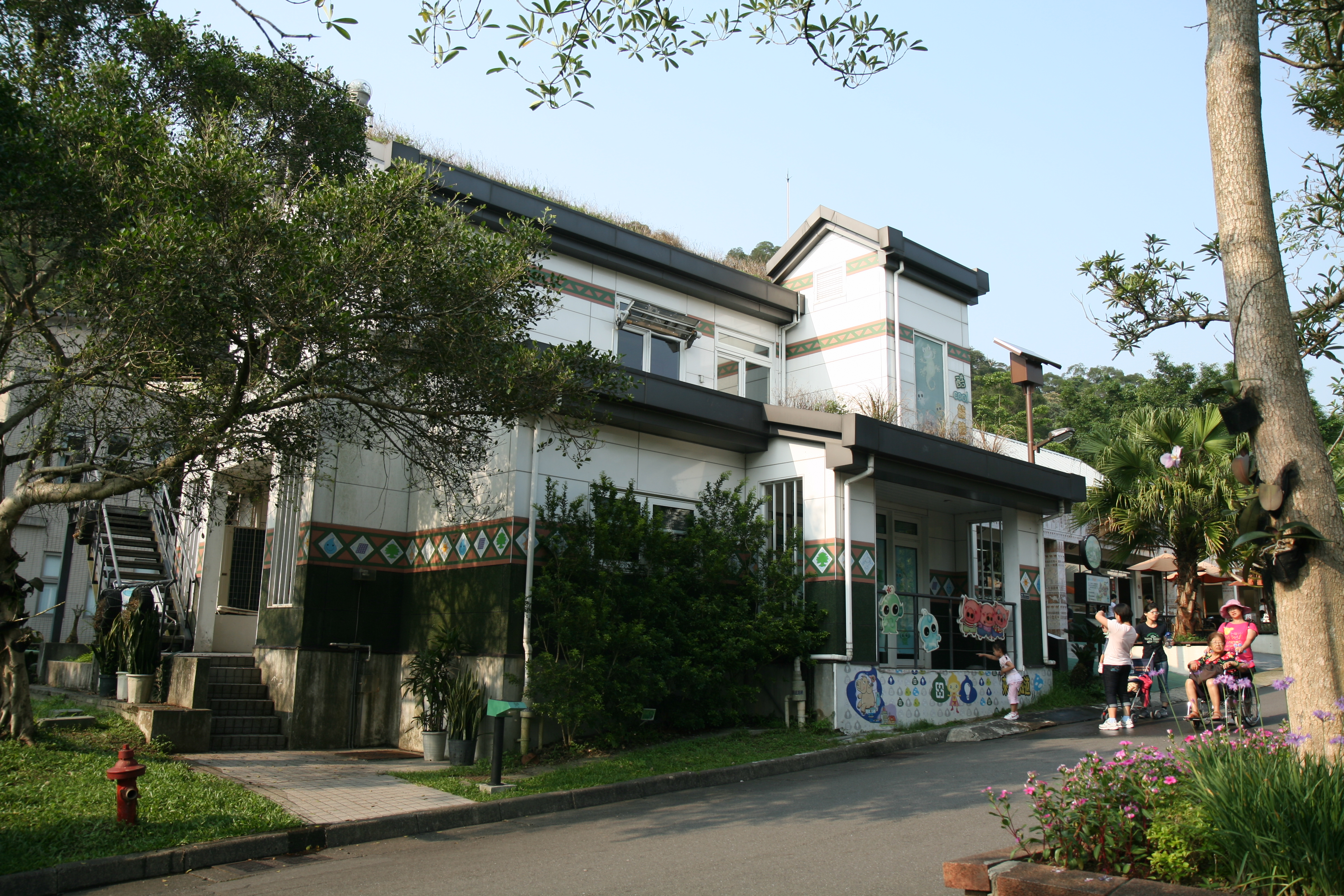 Eco-House, Taipei Zoo.